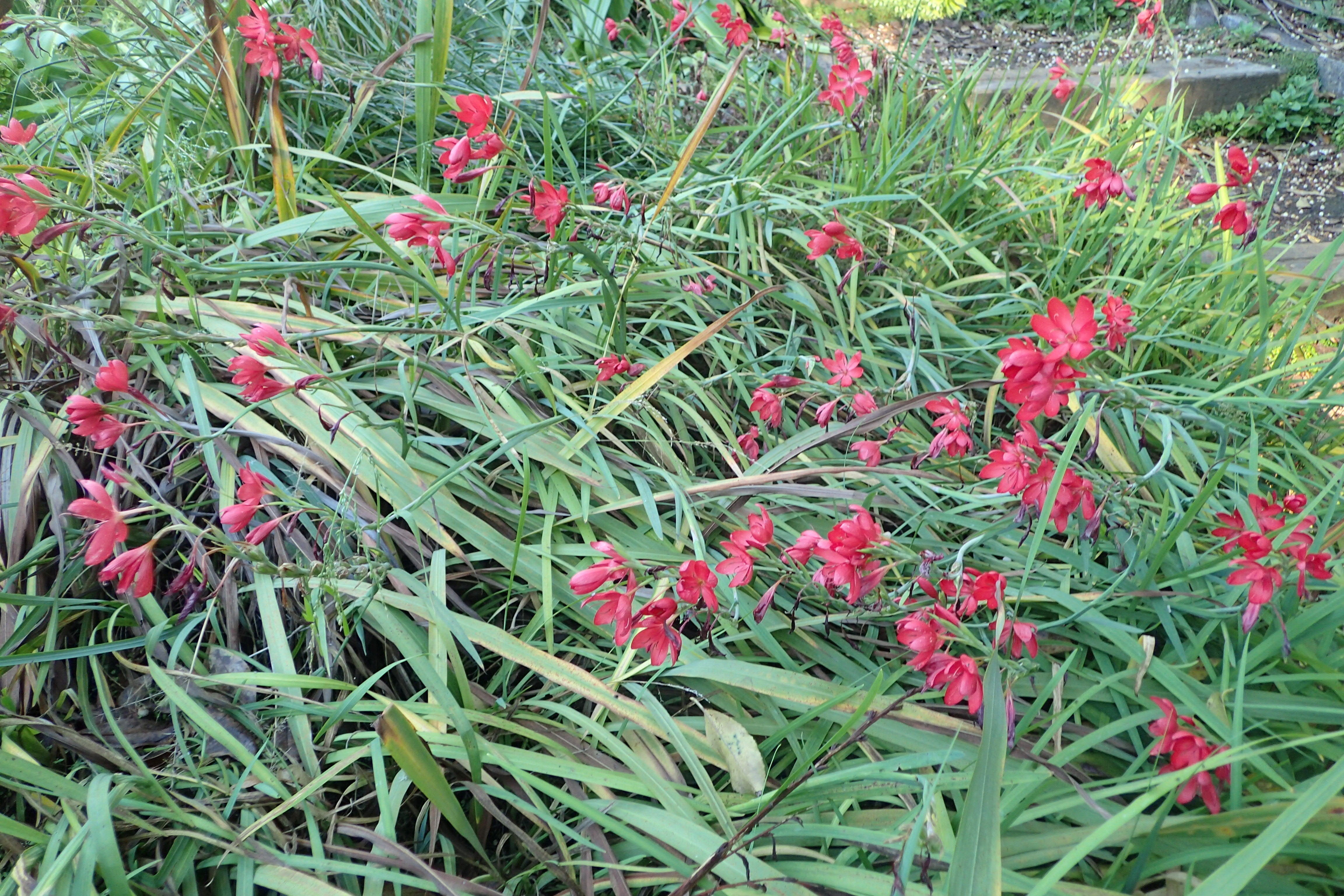 Hesperantha coccinea in the San Francisco Botanical Garden